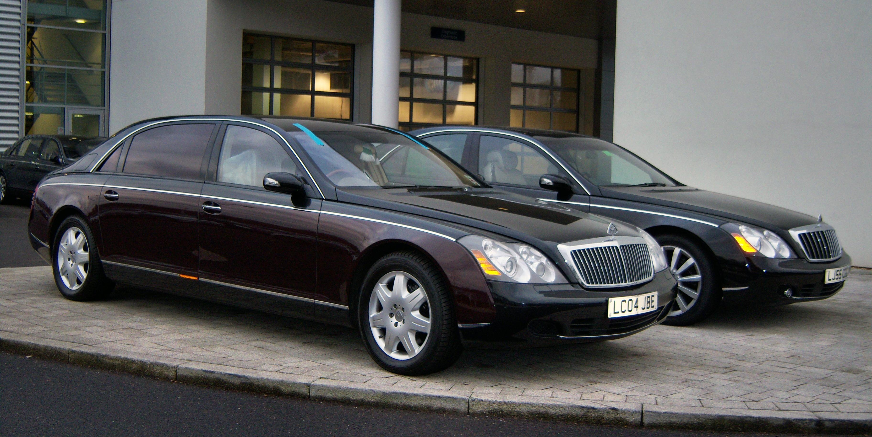 At Mercedes Benz World, Woking, UK.